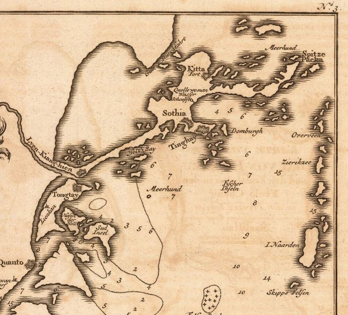 An 18th century atlas of "Bay of Foochow" by the Dutch, including the lower course of Min River from Fuzhou to the estuary and Luoyuan Bay